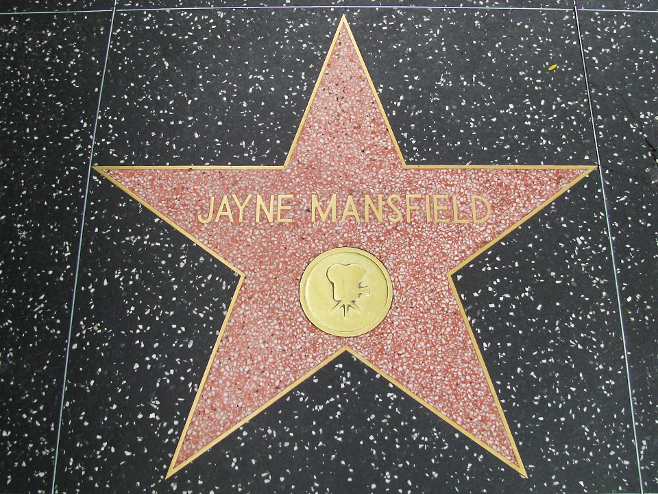 Jayne Mansfield's Hollywood Walk of Fame star photographed in June of 2011 in Hollywood